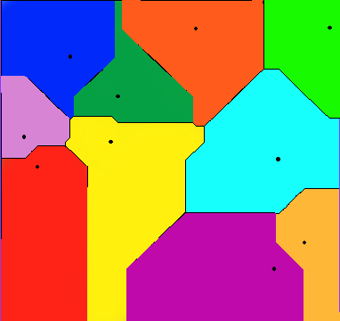 Voronoi diagram. The Voronoi cells of 10 point sites in the plane, under the Manhattan distance